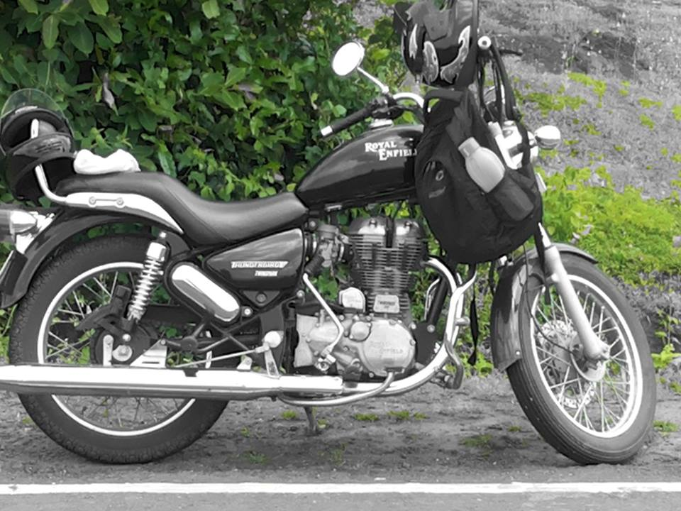 This is a picture of older version of Thunderbird 350 cc.